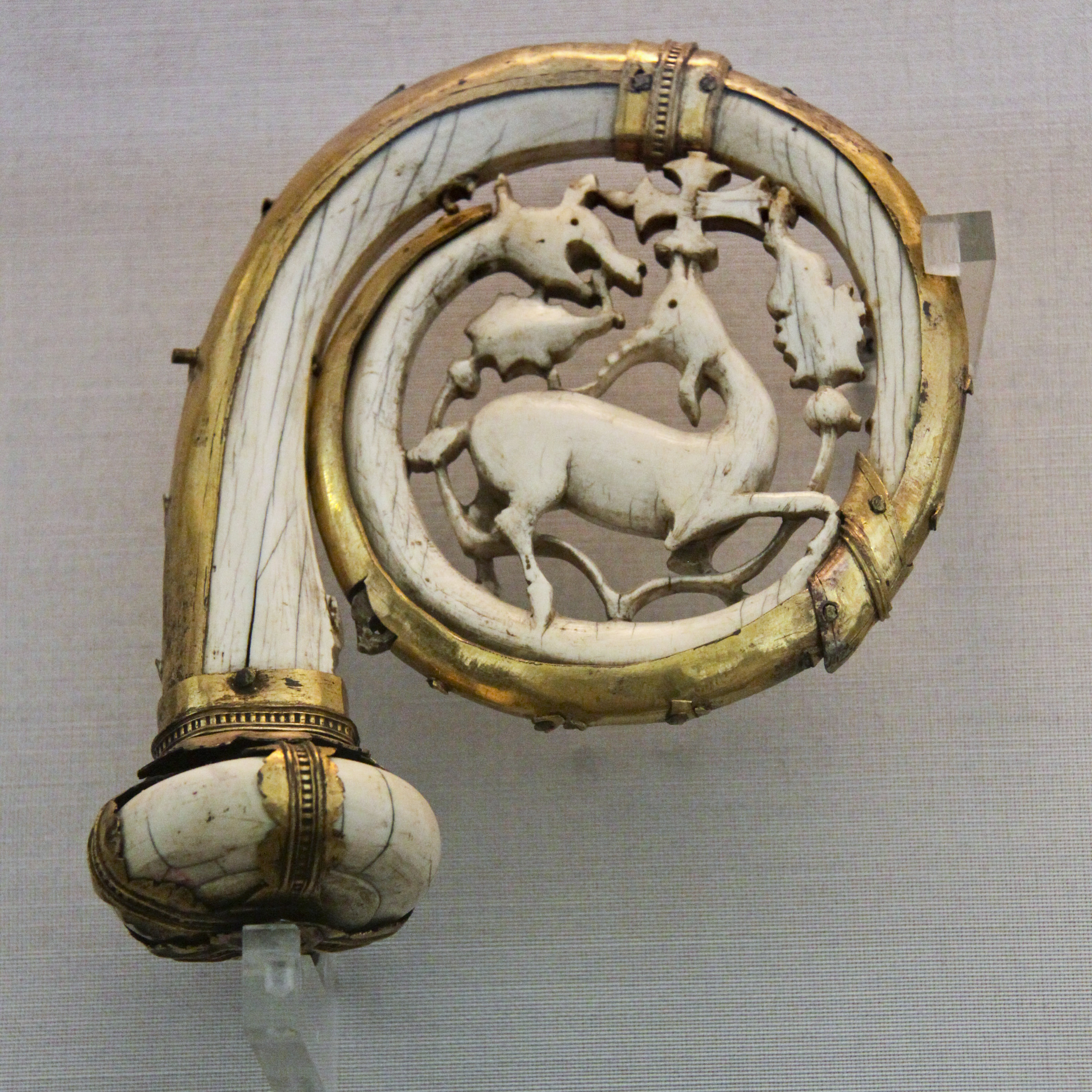 Crosier, 11th century, Italy. In the collections of the Hermiatge Museum in Saint Petersburg.